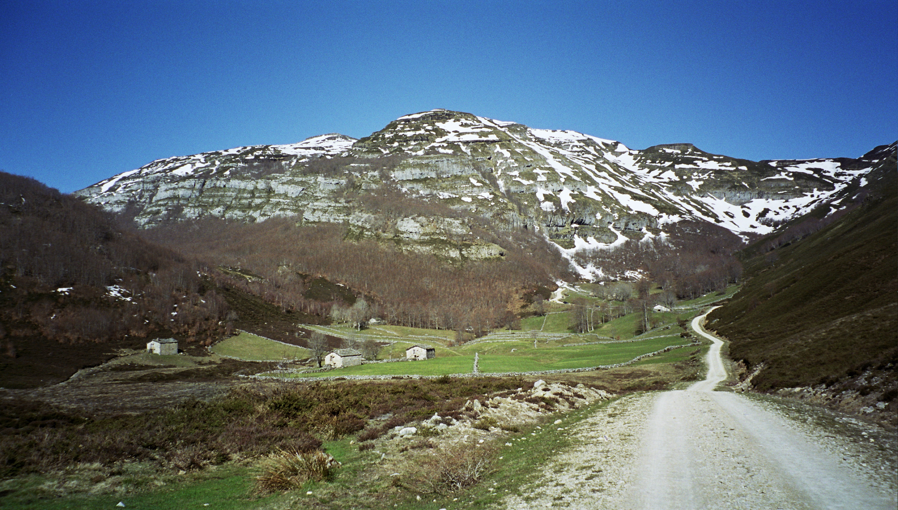 Castro Valnera Mount, Burgos (Spain) This is a photography of a Site of Community Importance in Spain with the ID: ES4120088. Natura2000 entry, EEA entry